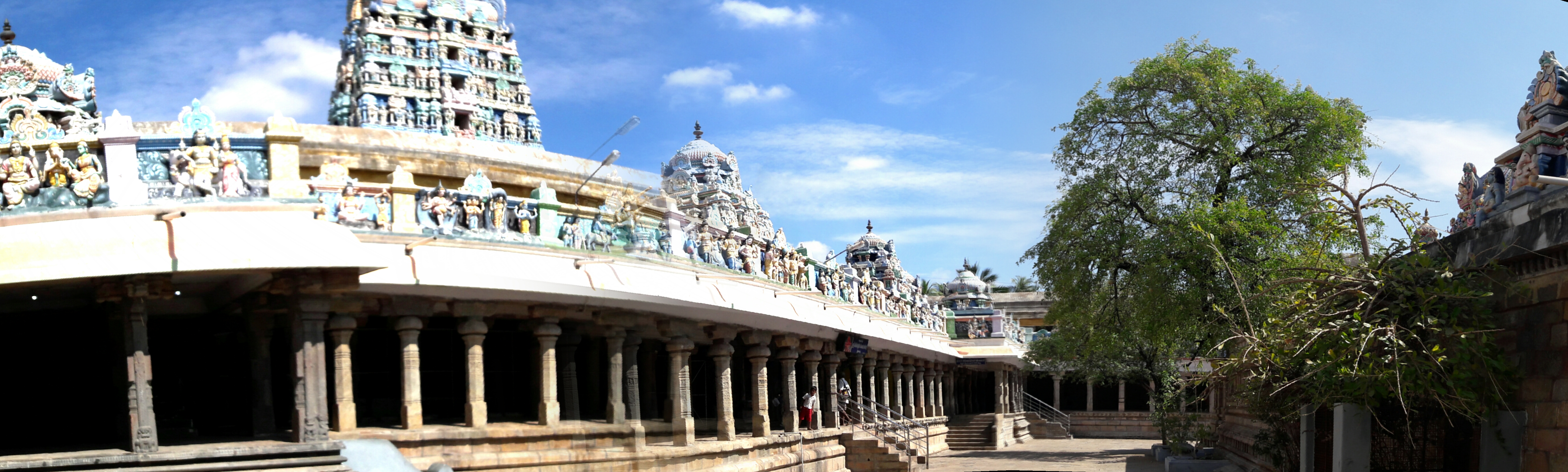 Aiyarappar temple Thiruvayyaru